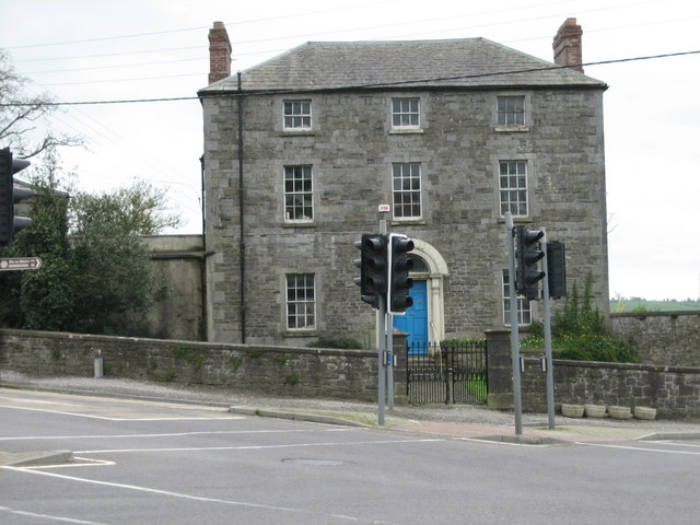 House. There are four identical houses at the crossroads in Slane formed by the intersection of the N2 and N51.